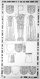 Sir John Arundell (1474-1545) of Lanherne, Cornwall. Monumental brass in the church of St Columb Major, Cornwall